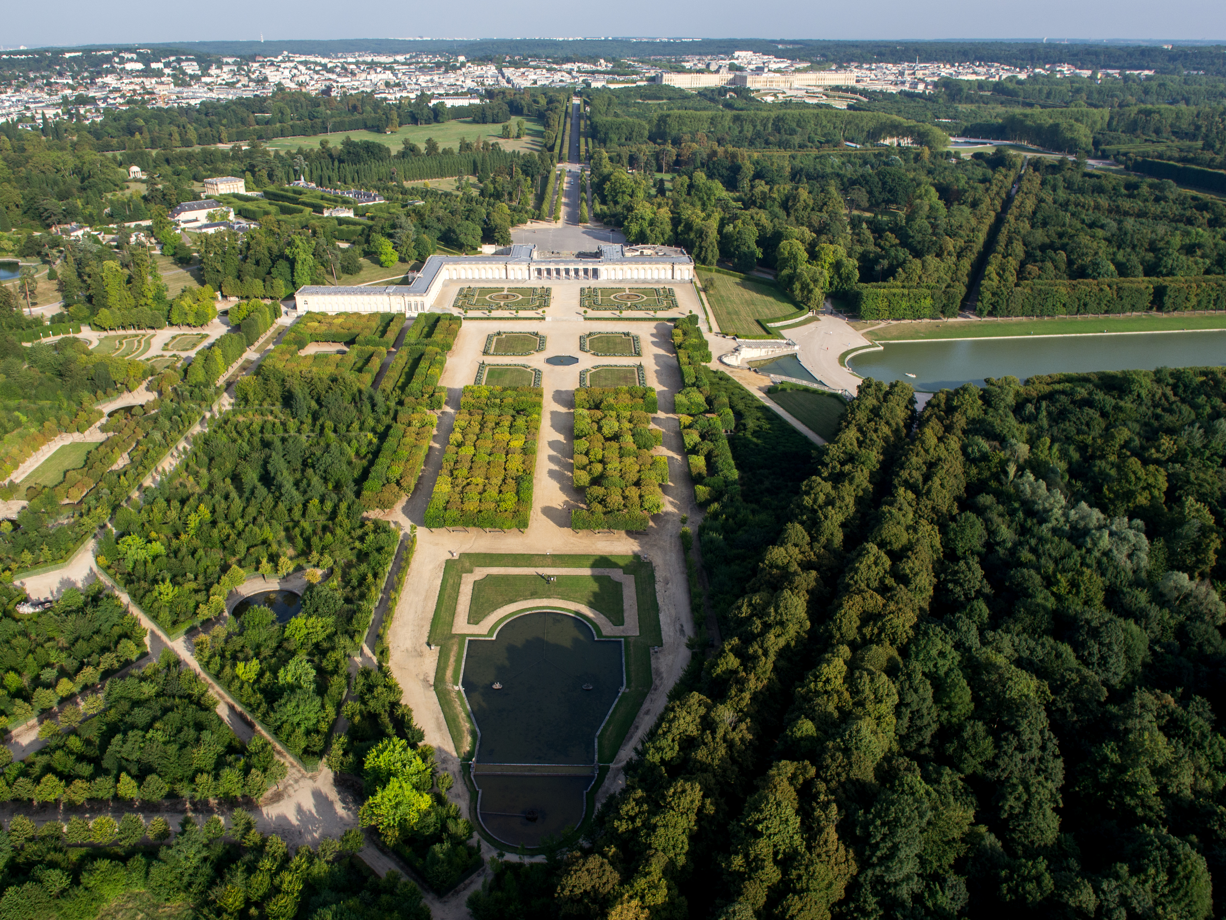 Aerial view of the Grand Trianon, Domain of Versailles, France